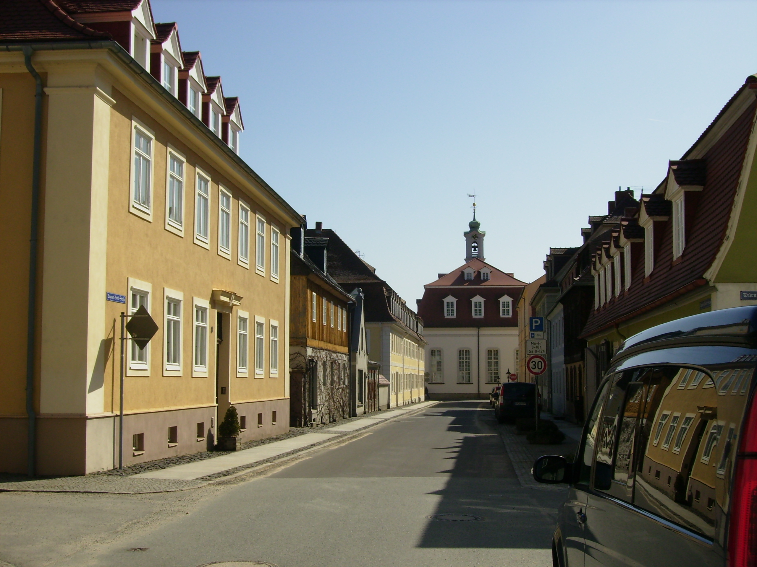 View looking toward Moravian Church on August-Bebel-Str, Herrnhut, Sachsen, Germany.